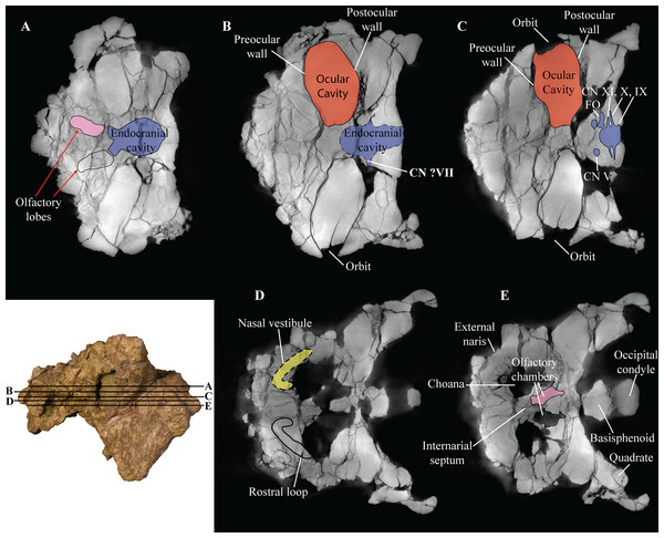 Transverse plane CT visualization of the skull of Akainacephalus johnsoni revealing important anatomical features, otherwise obscured by bone and/or matrix. Anatomical features in skull of A. johnsoni with horizontal lines indicating localities for the CT slices; (A), oblong-shaped olfactory lobes and outline of the endocranial cavity which provides space for the brain, including its olfactory lobes; (B), and (C), ocular cavities and their surrounding pre- and postocular walls. Presence of cranial nerves CN V, ?VII, IX, X, XI and the fenestra ovalis (FO) along the lateral surfaces of the endocranial cavity; (D), anatomical outline of a small portion of the complex nasal air passage system showing the rostral loop of the nasal vestibule; (E) outlines of the olfactory chambers which house the olfactory lobes. Images not to scale.